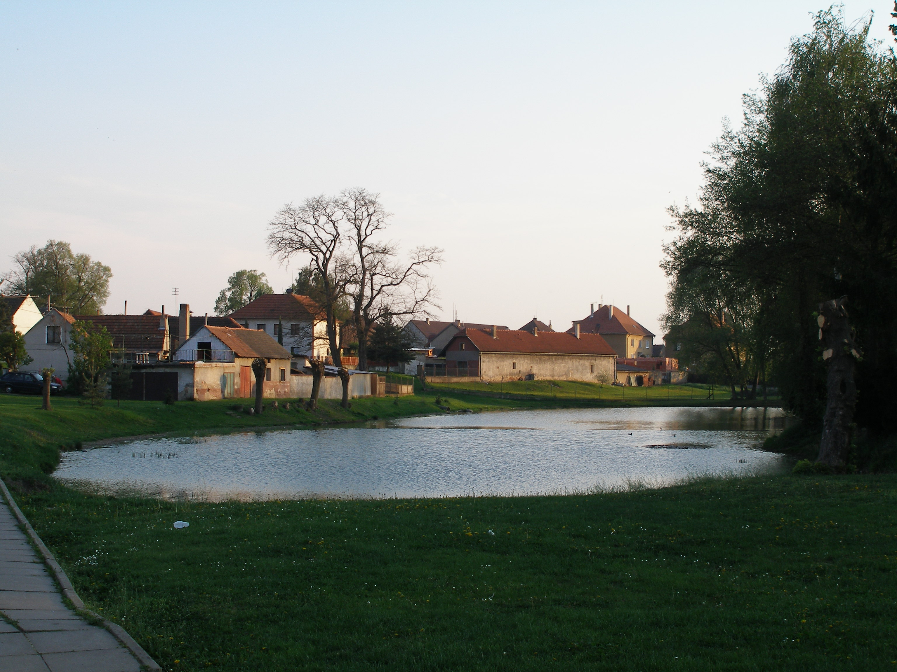 Pond in Býkev.